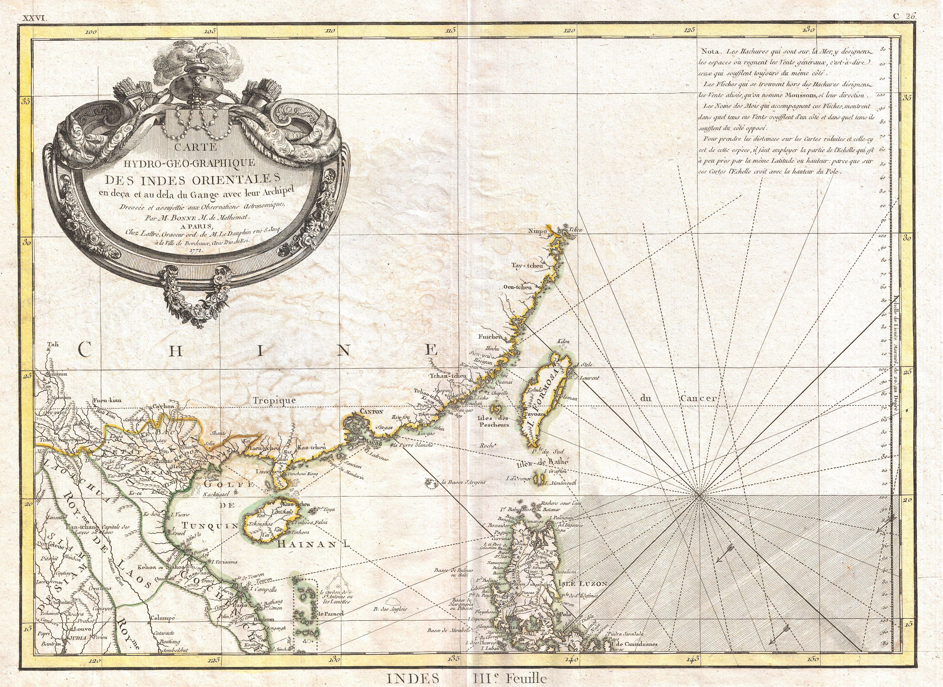 A beautiful example of Rigobert Bonne's 1771 uncommon map of southeastern China. Covers from the Kingdom of Siam (Thailand) to include Laos, Tonkin (northern Vietnam), Cochin Chi (southern Vietnam), the island of Hainan, Formosa (Taiwan) and the Island of Luzon (northern Philippines). Notes Macao and Canton and shows, but does not label, Hong Kong Island. Tayoan is noted on Formosa. Offers little inland detail with regard to China itself. Notes in the upper right hand corner comment on the Monsoons. Rhumb lines throughout. Arrows in the lower right show the direction of the prevailing winds. A fine map of the region. Drawn by R. Bonne in 1771 for issue as plate no. C 26 in Jean Lattre's 1776 issue of the Atlas Moderne .